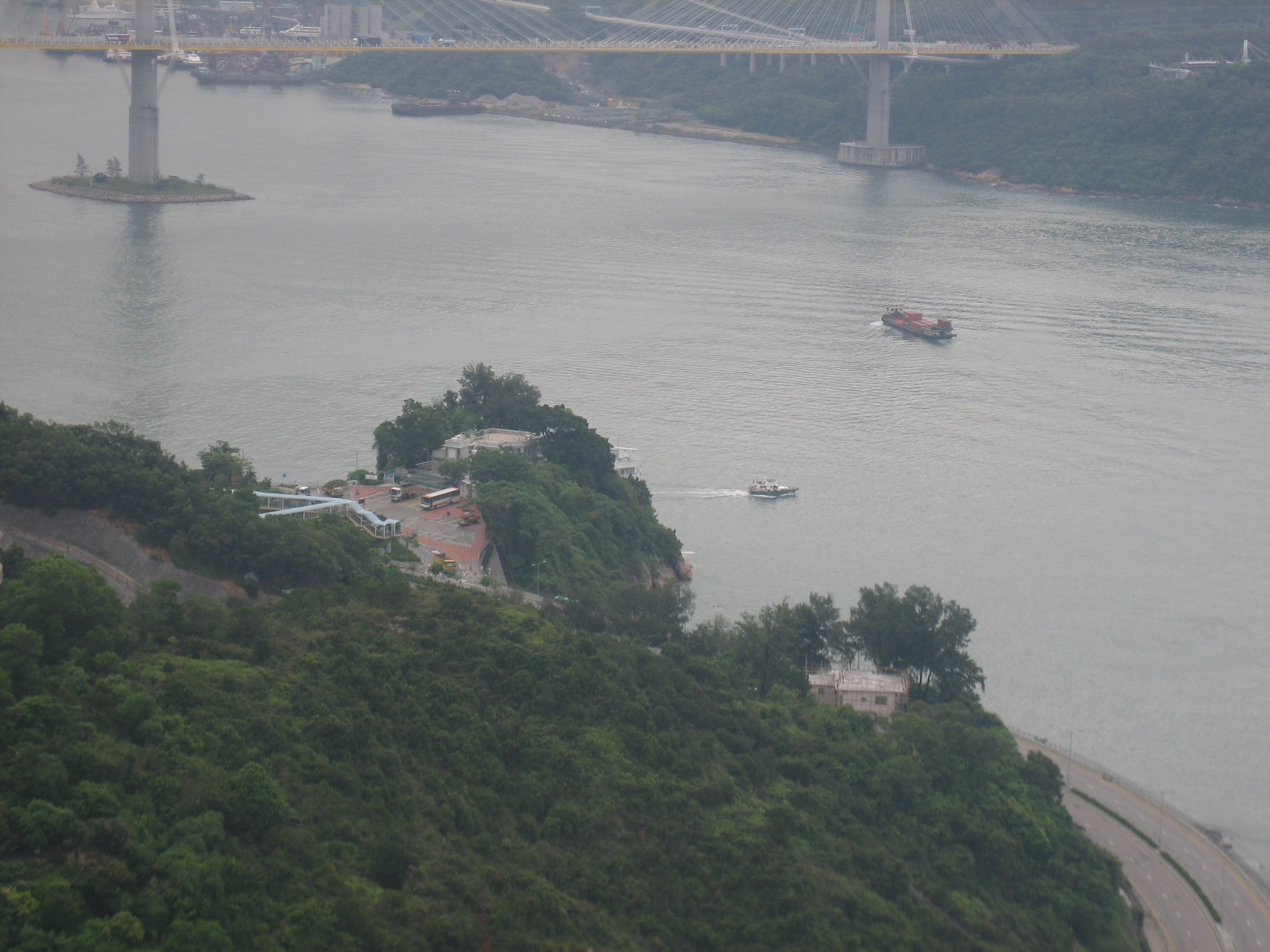 Airport Core Programme Exhibition Centre,taken from Bellagio